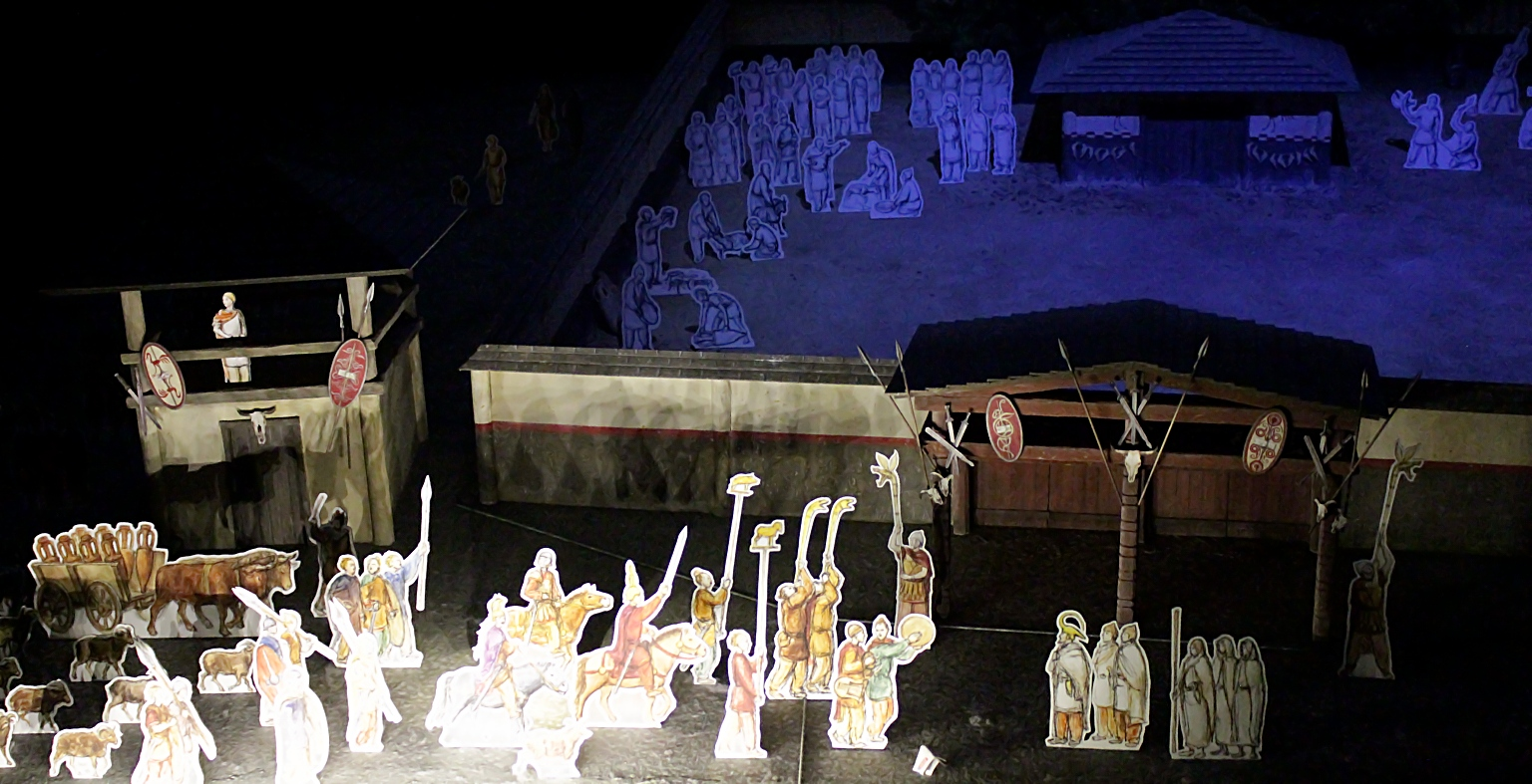 Evocation of a Gallic ceremony in the sanctuary of Tintignac (Corrèze), model produced starting from the excavations. Cité des Sciences et de l'Industrie (Paris), "Les Gaulois, une expo renversante", from 19-10-2011 to 02-09-2012.